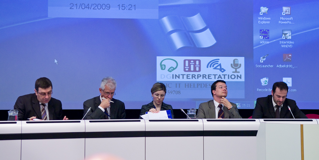 ACTA (Anti-Counterfeiting Trade Agreement). Charlemagne/Gasperi, Rue de la Loi 170, 1049 Brussels, Belgium. Directorate General for Trade of the European Commission. The picture sucks, but I was busy making notes ;) From left to right: Christian Tournié, DG Justice Liberty and Security Benoît Lory, Legal and Policy Affairs Officer for enforcement of Industrial and IP rights, DG Internal Market Alexandra Iliopoulou, Policy Officer, DG Trade Pedro Velasco Martins, Policy Officer, DG Trade Luc Devigne, Head of Intellectual Property & Public Procurement, DG Trade Nikon D200 + AF-S DX Zoom-Nikkor 17-55mm f/2.8G IF-ED